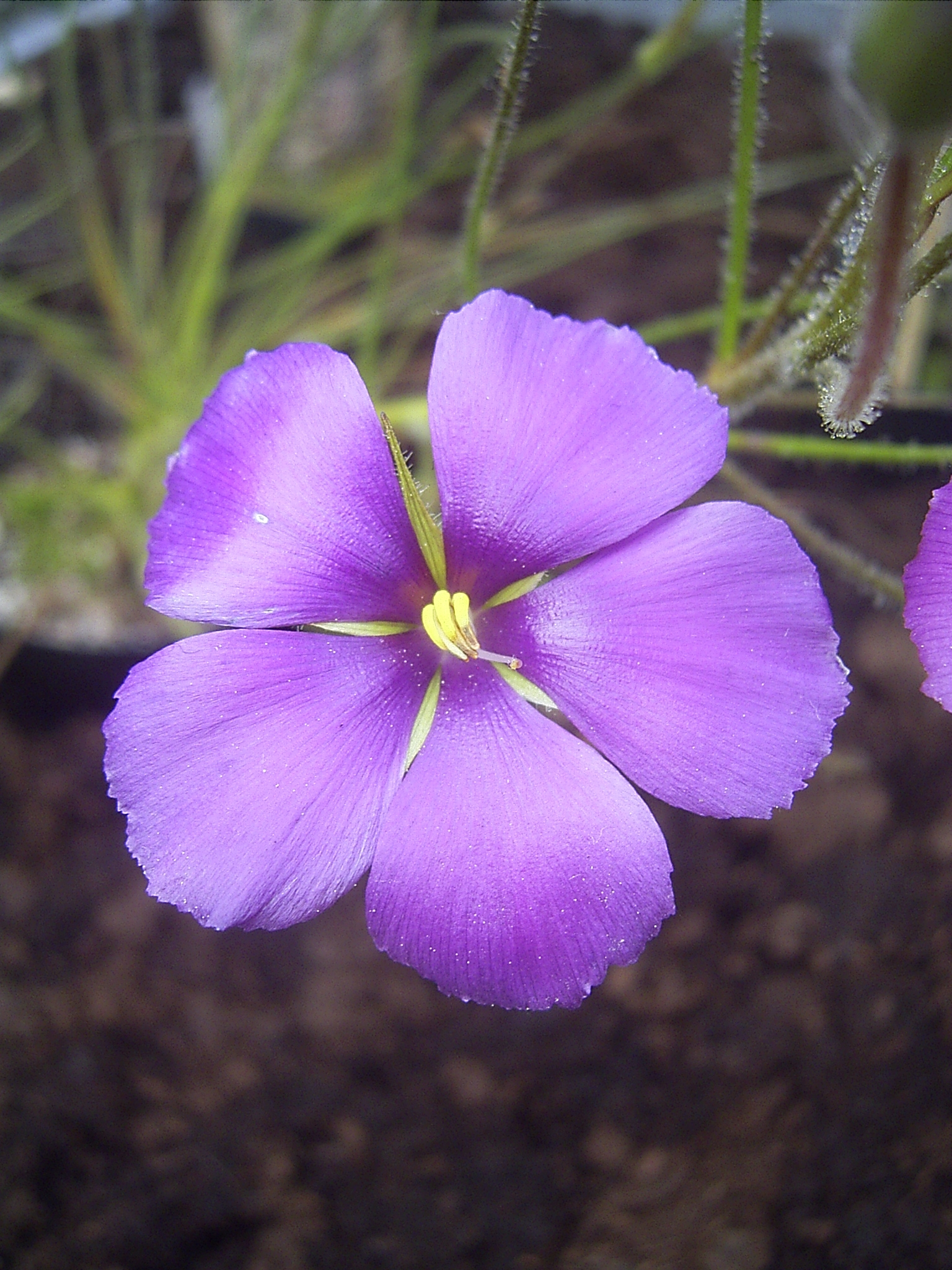 Flora of Byblis gigantea